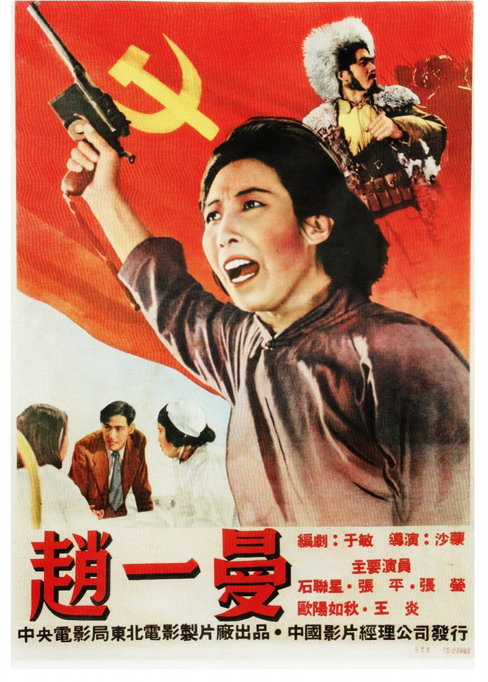 Poster of 1950 Chinese biopic film Zhao Yiman, starring Shi Lianxing